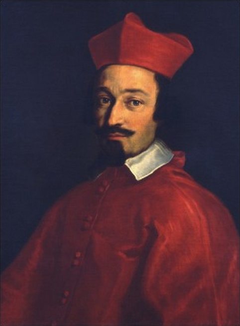 Portrait Cardinal Fabio Chigi